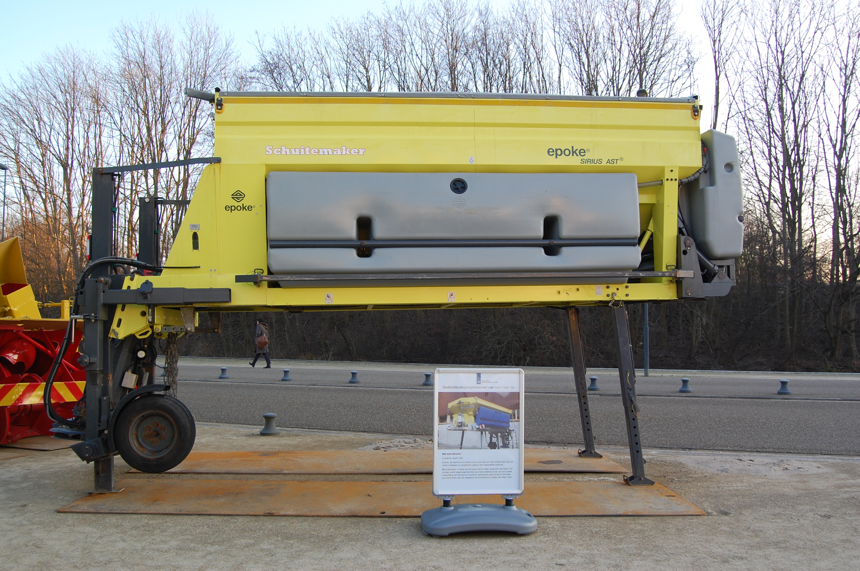 Snow removal tool of Rijkswaterstaat, The Netherlands